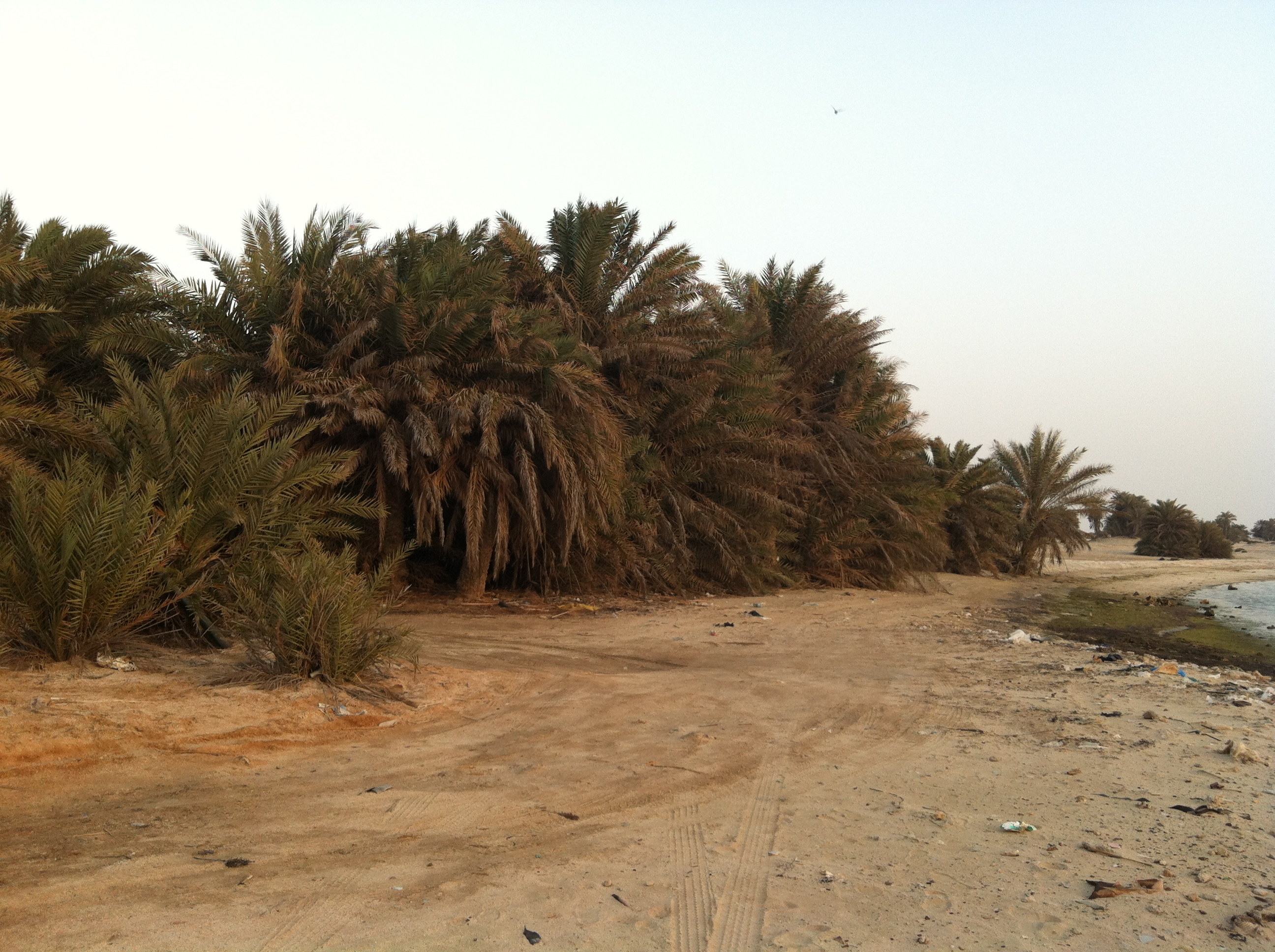 Umm Bab beach in western Qatar.